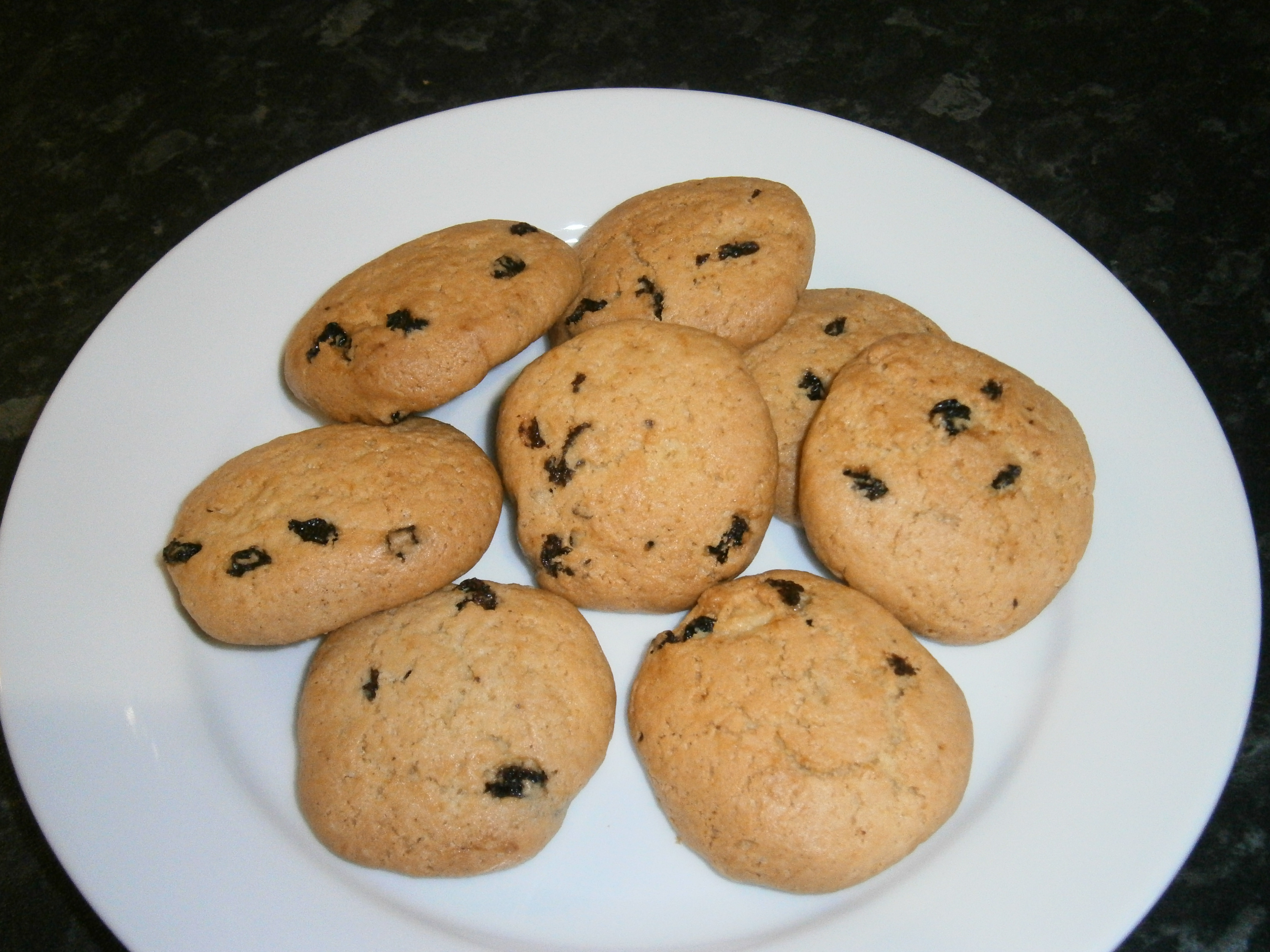 Shrewsbury biscuit (with fruit)